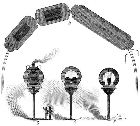 Scheme of Meigs Elevated Railway, print published July 10, 1886 by Scientific American. Fig. 2 : plan view of a train on a sharp curve Fig. 3 : end view of the track and the engine Fig. 4 : section through tender and track Fig. 5 : section through the car